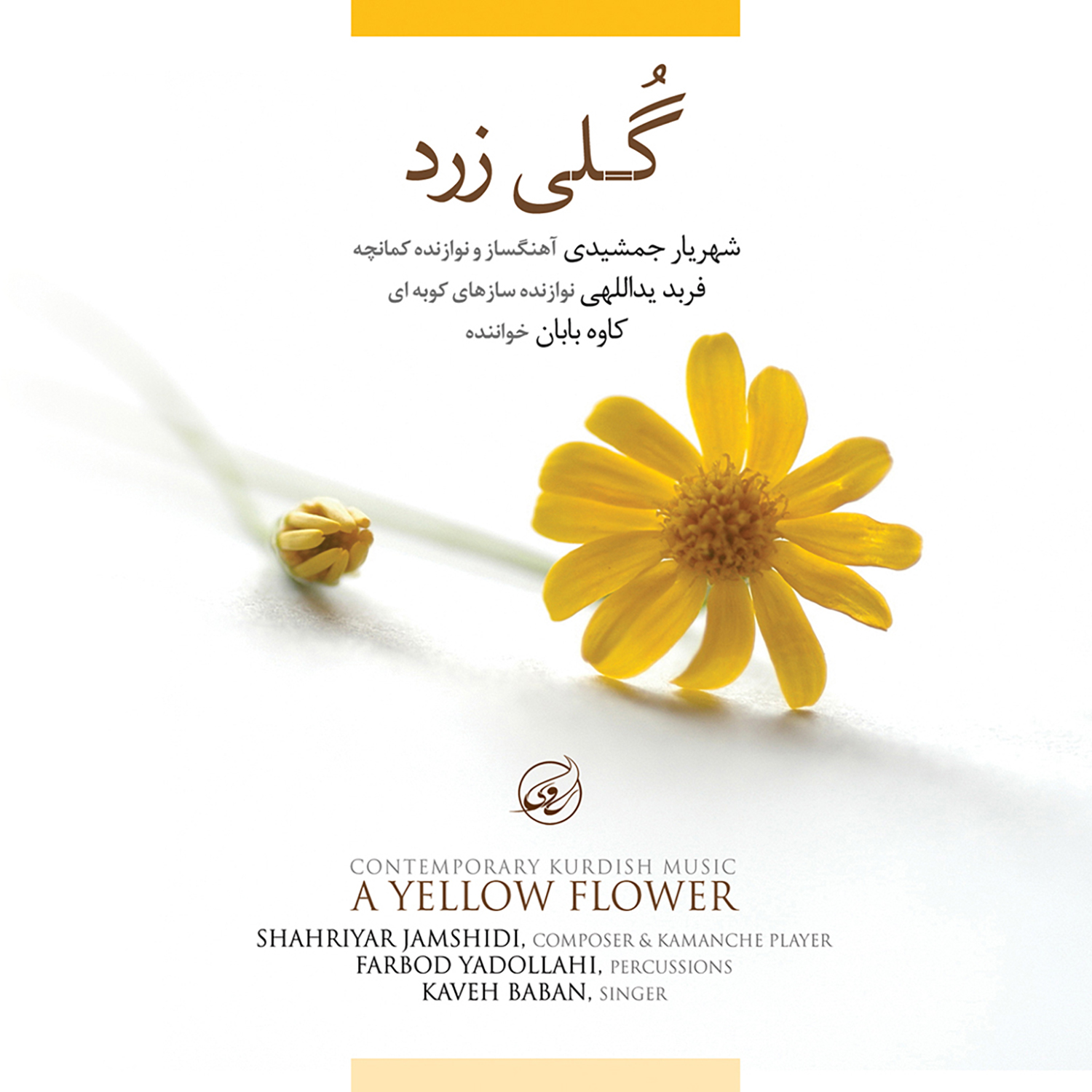 The artwork of A Yellow Flower music album by Shahriyar Jamshidi in Kurdish released in 2014. Аҧсшәа: وێنەی سەرەکی ئەلبومی موزیکی گۆلی زەرد بەرهەمی هونەرمەند شەهریار جەمشیدی، ٢٠١٤